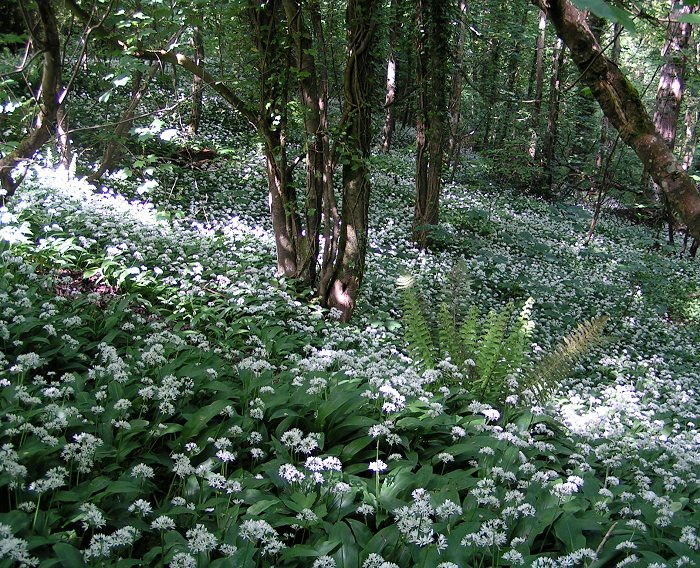 Ramsons woodland